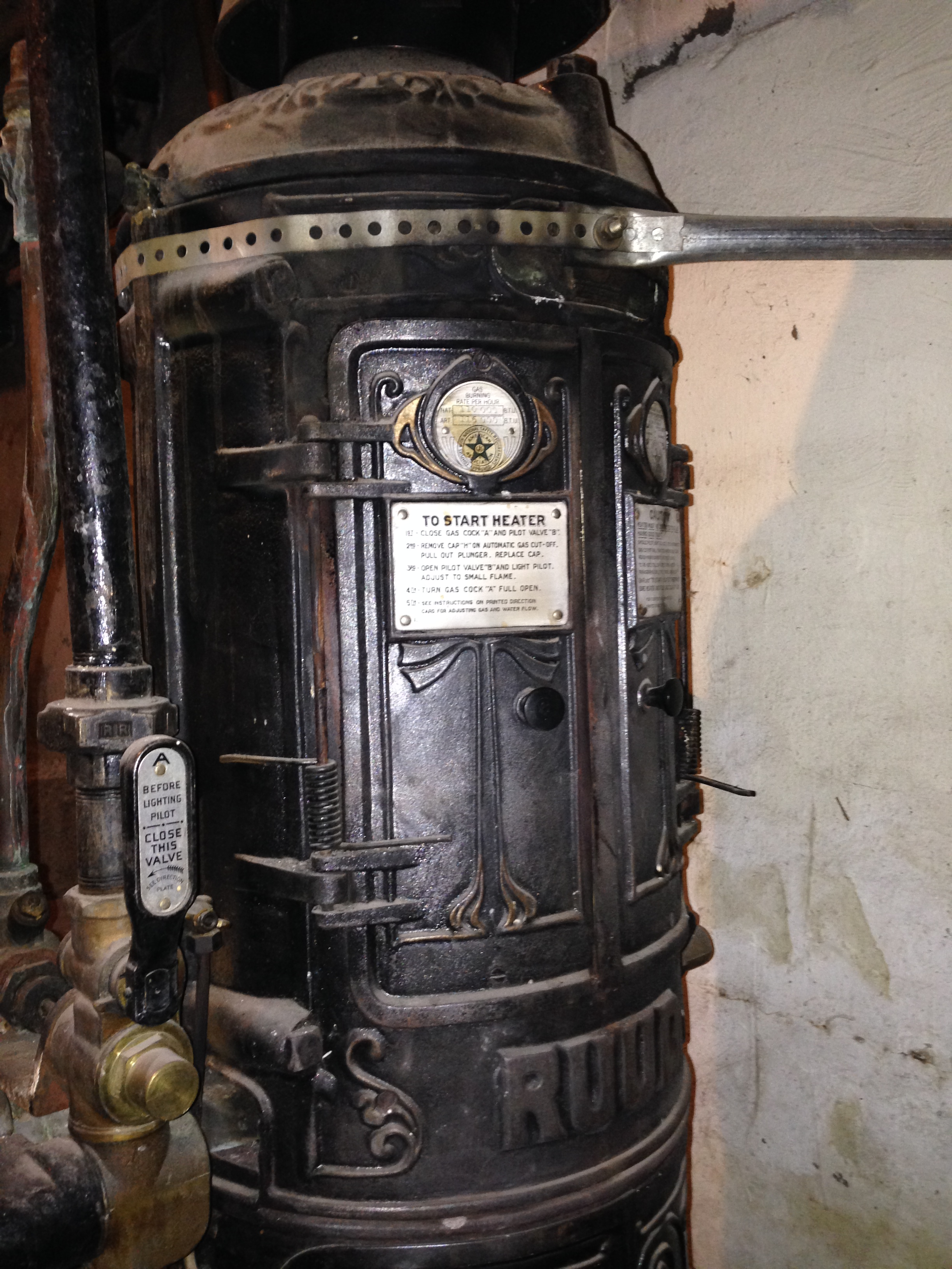 A Ruud no.3 Instantaneous and Automatic Water Heater from the early 1900's. In use in Berkeley, California - 2013